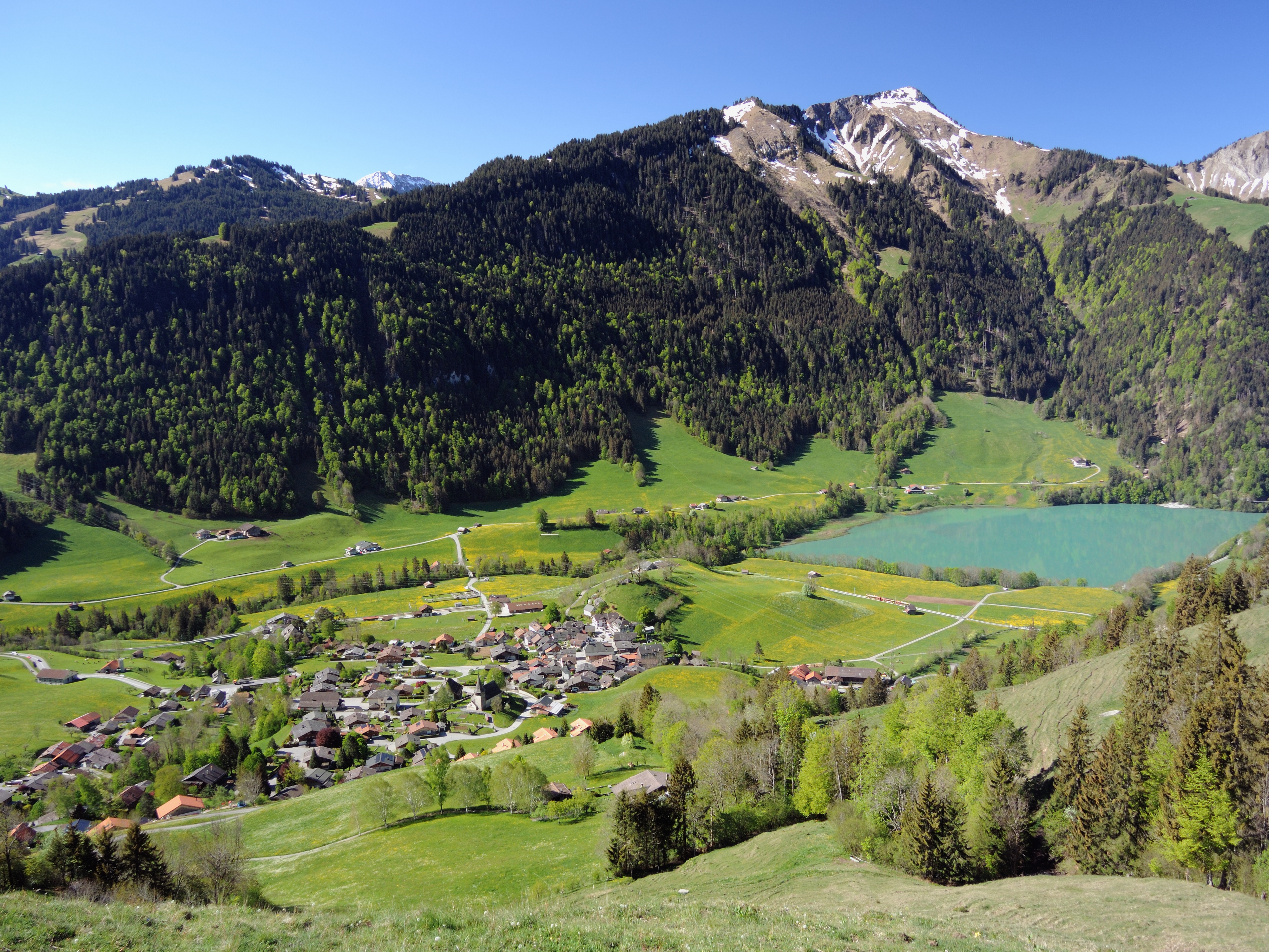 Rossinière from Clou des Mis